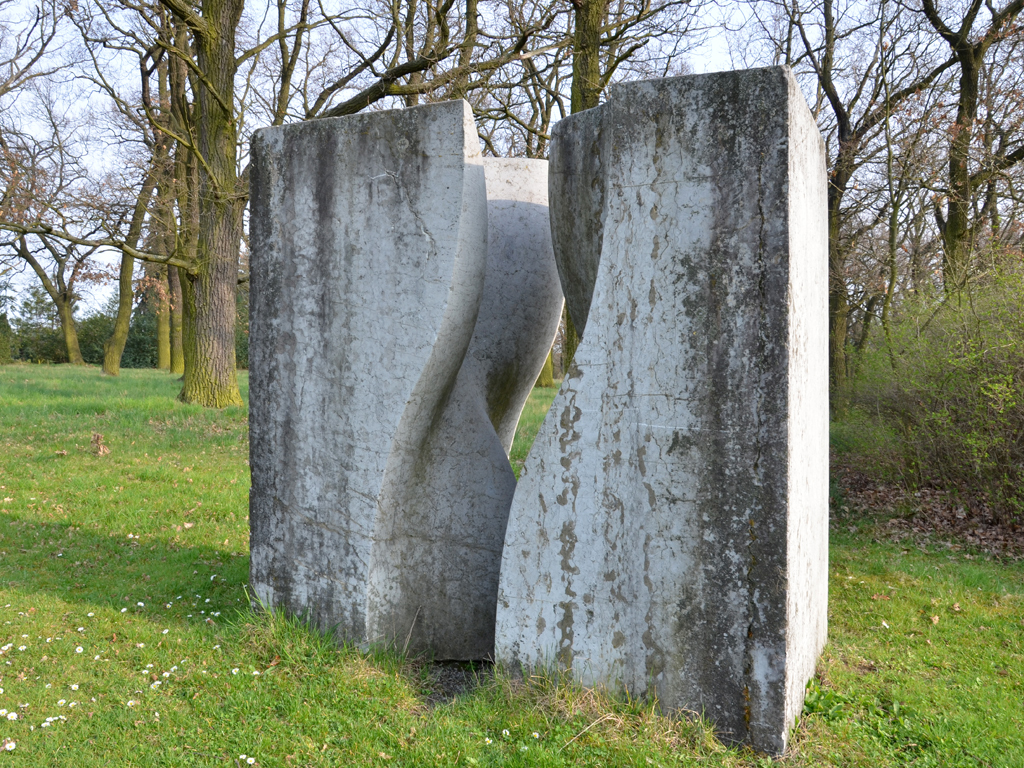 Sculpture by Zdeněk Šimek, Tension – Adam and Eve (limestone), 1970, VÚKOZ, Průhonice